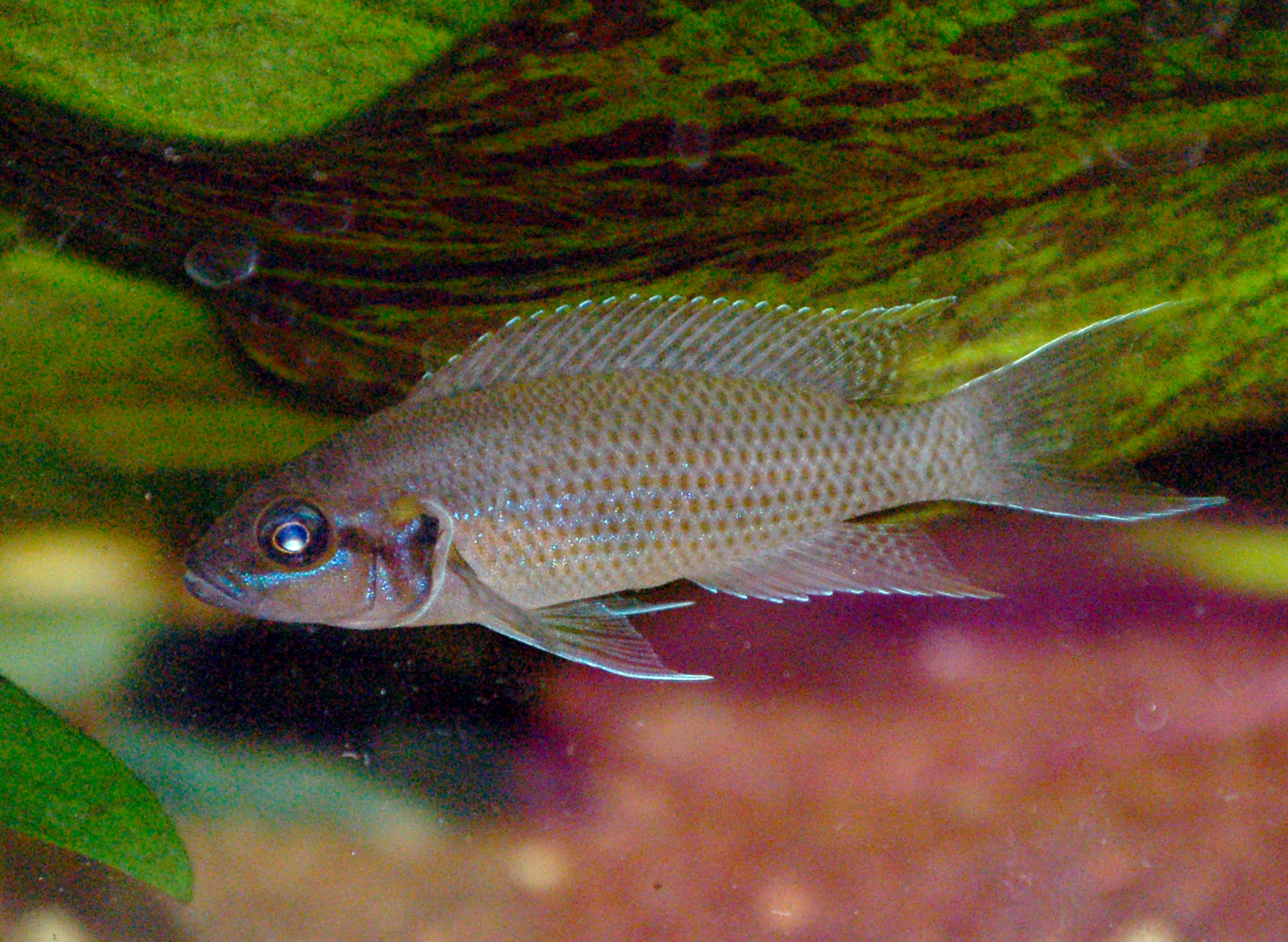 N. olivaceous female